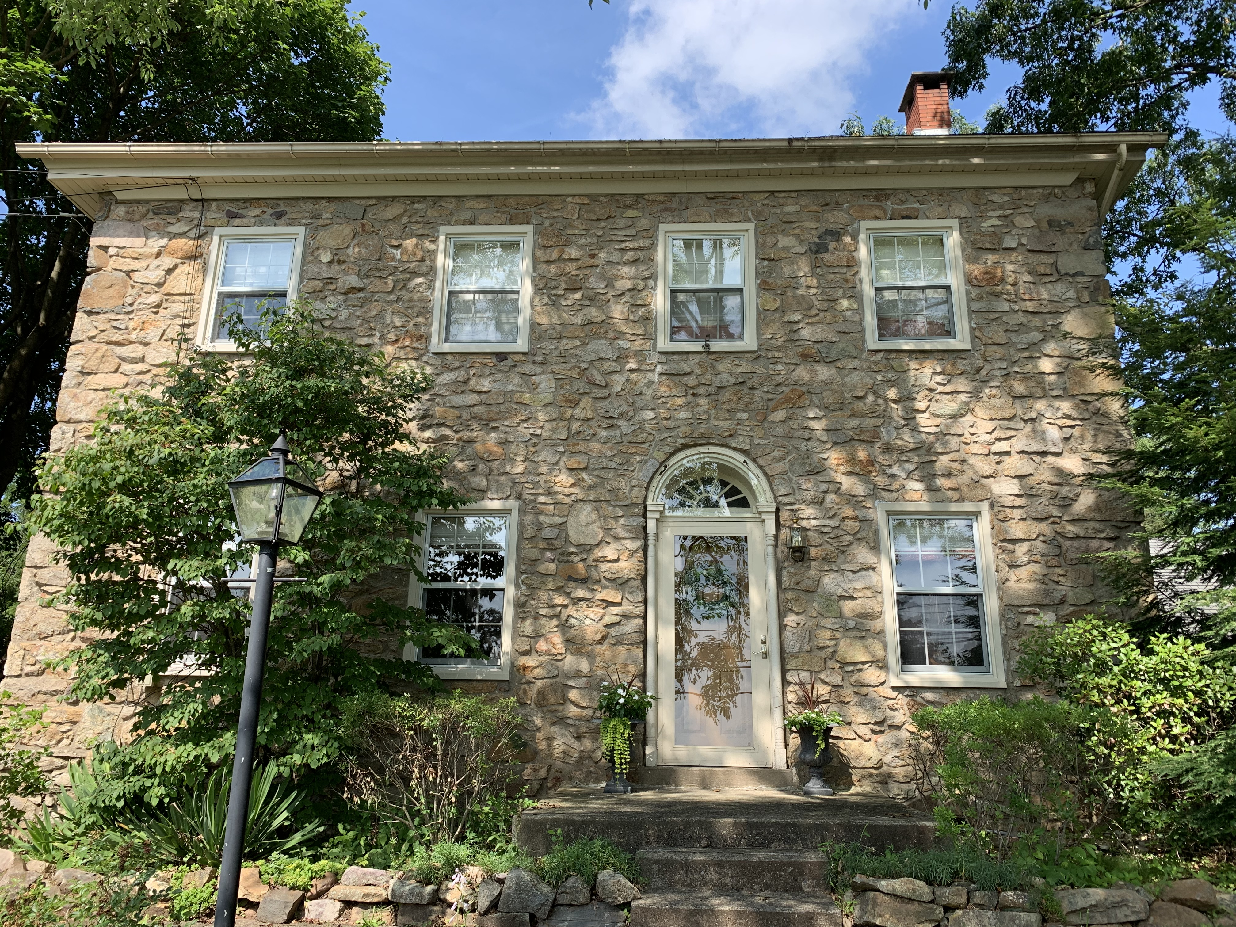 Locust Valley German Georgian Home built in 1850